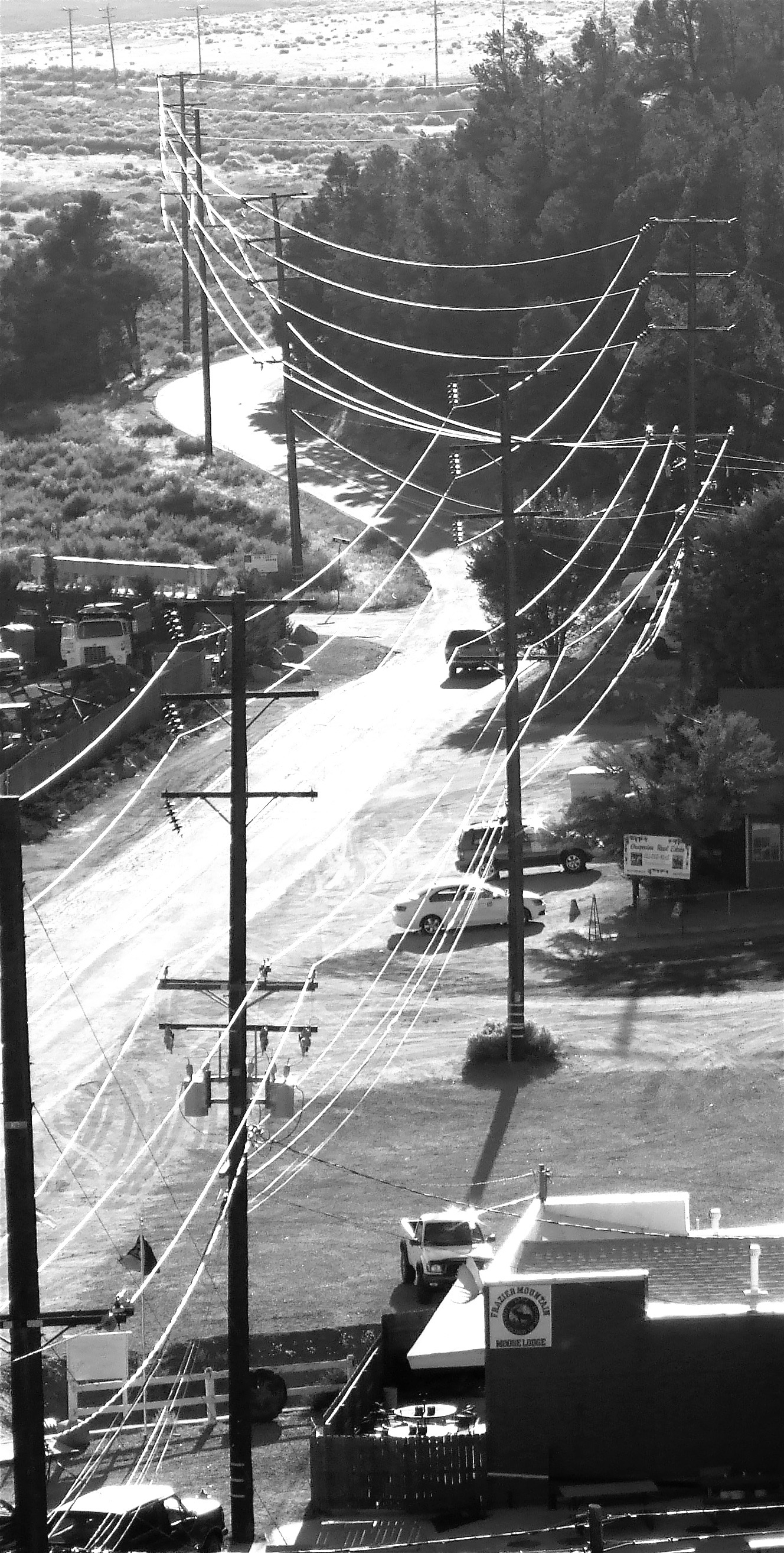 Power lines in the Lake of the Woods community, Frazier Park, 2011. – I took this photo while I was out for a walk with my dog near my house in Frazier Park, California.